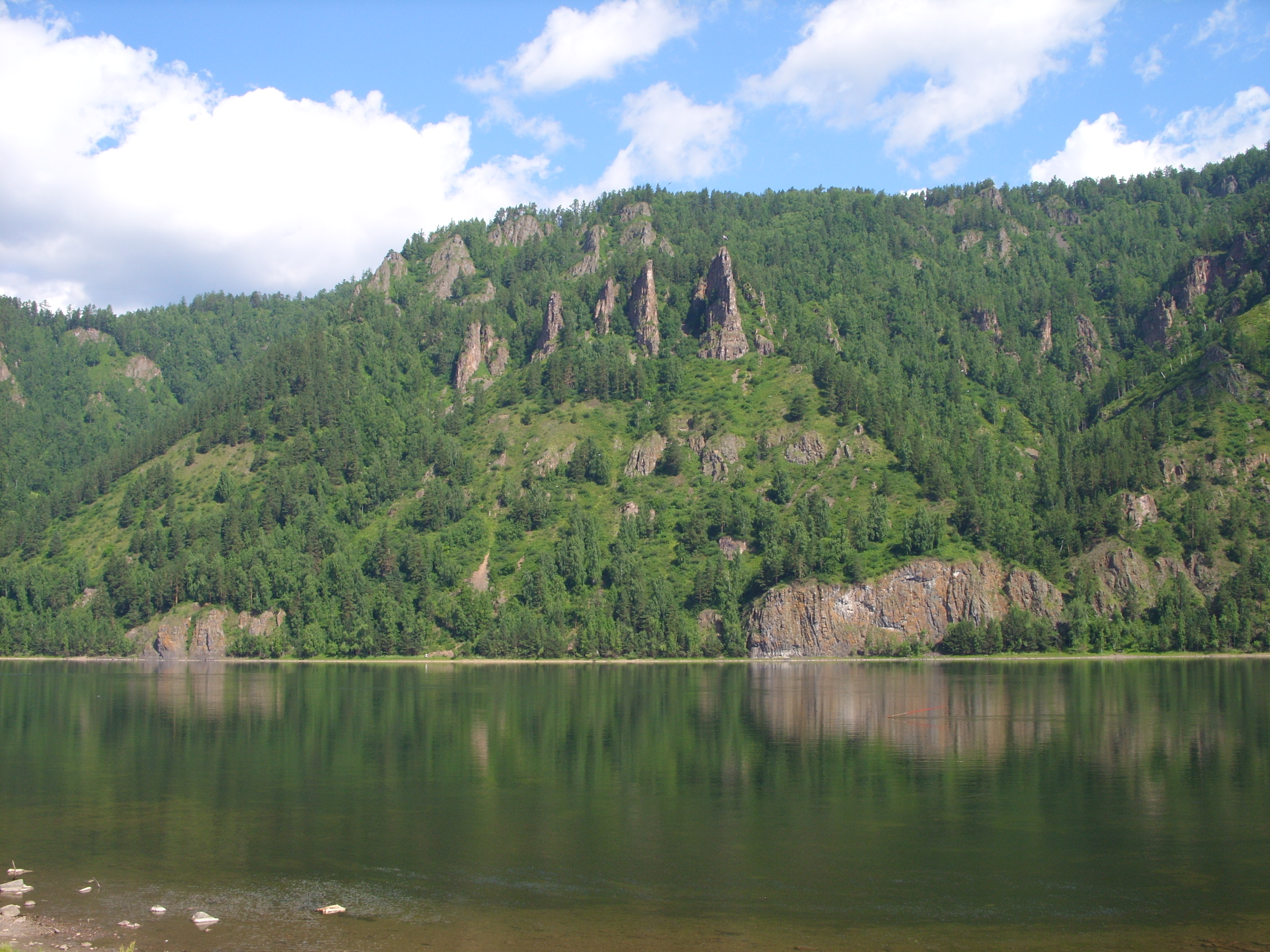 The Embankment of the Yenisei River in Divnogorsk. In the background the Steeples Rocks (Divnye (marvelous) mountains, Mininskiye Stolby).